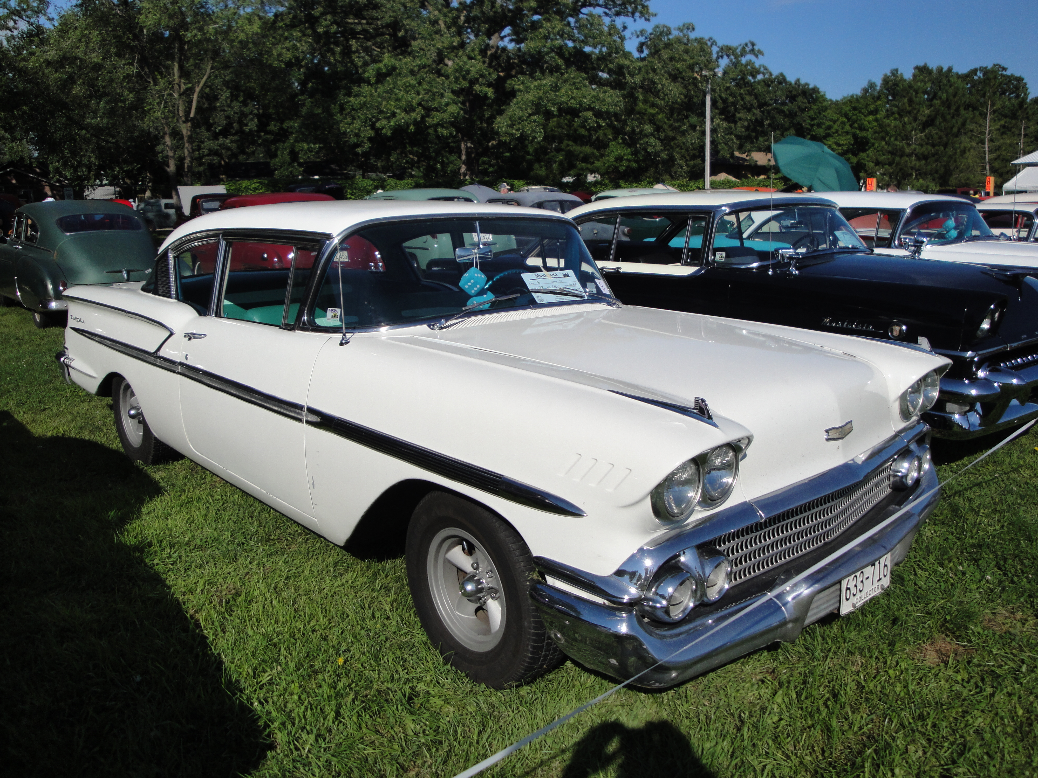 The Pantowners Annual Car Show and Swap Meet Sunday August 21, 2011